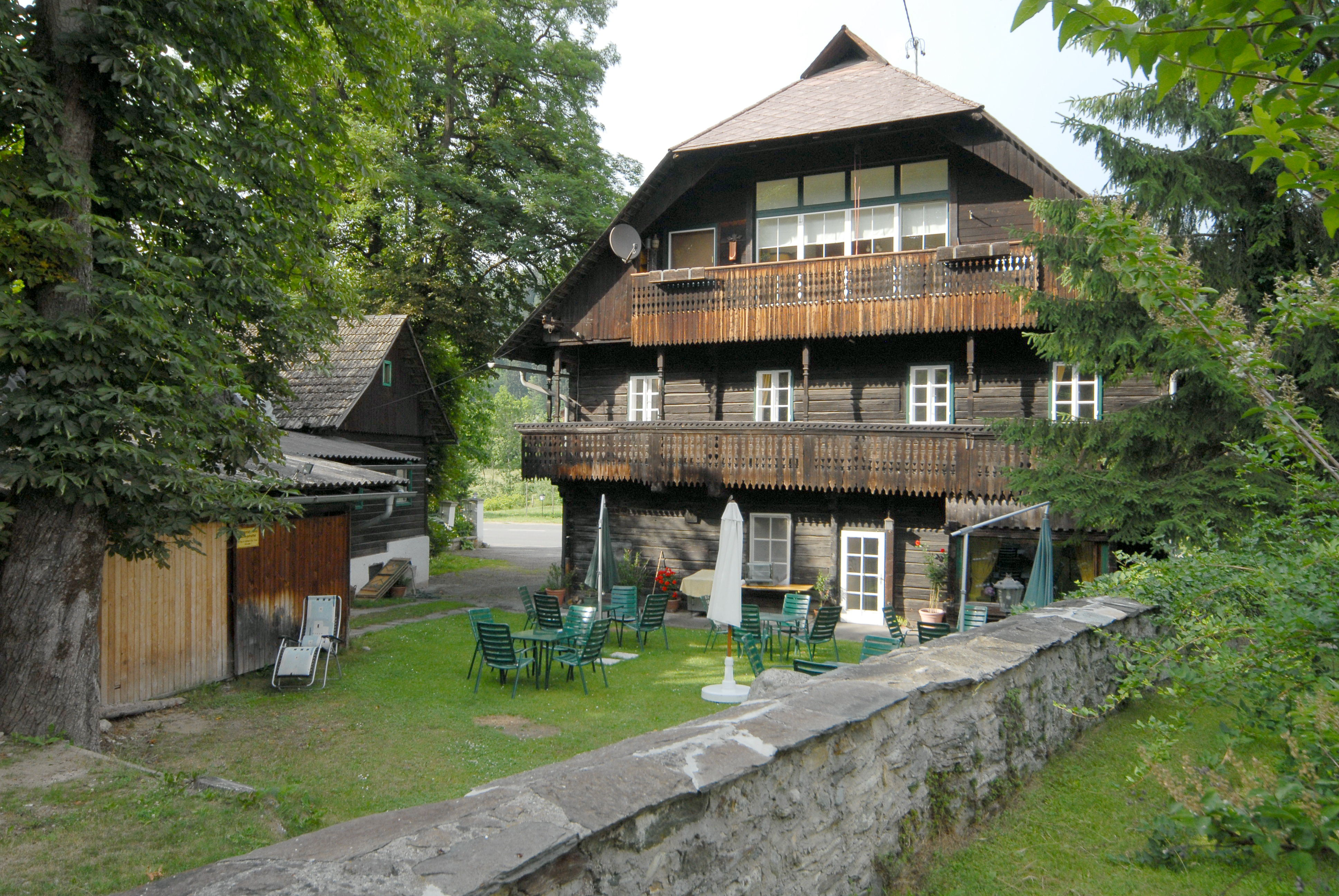 Rural residential house and restaurant, municipality Himmelberg, district Feldkirchen, Carinthia, Austria